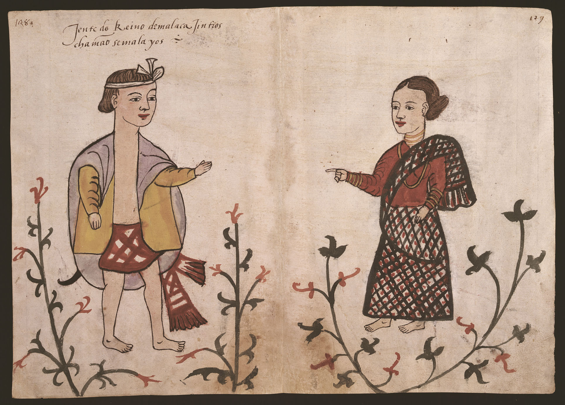 Anonymous 16th century Portuguese illustration from the codex known as the Códice Casanatense, or Casanata Codex. The inscription reads: "Gentile people from the Kingdom of Malacca they are called Malayos"